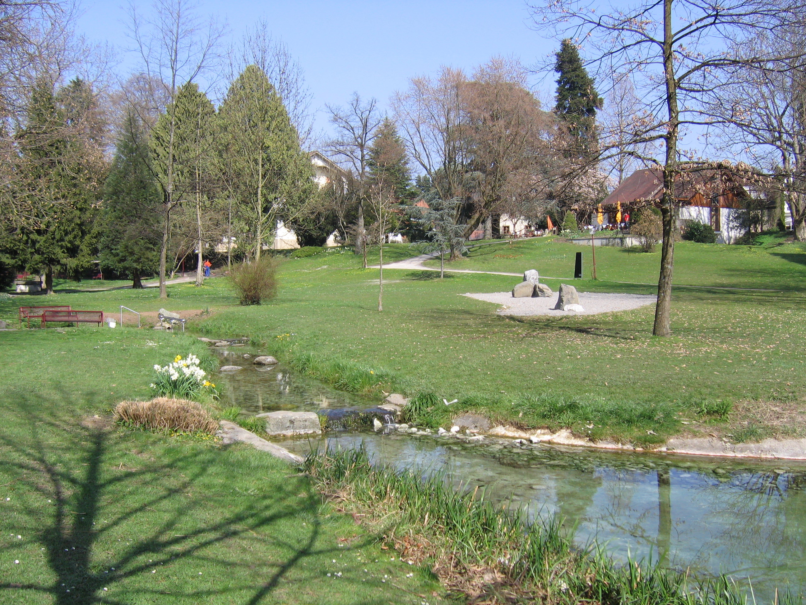 Germany - Baden-Württemberg - Bodenseekreis - Kressbronn am Bodensee: 'Schlösslepark'